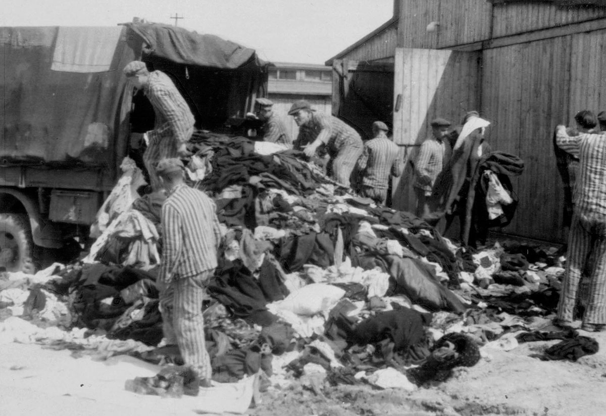 Clothing confiscated from new arrivals in the so-called "Canada" section of Auschwitz-Birkenau in German-occupied Poland